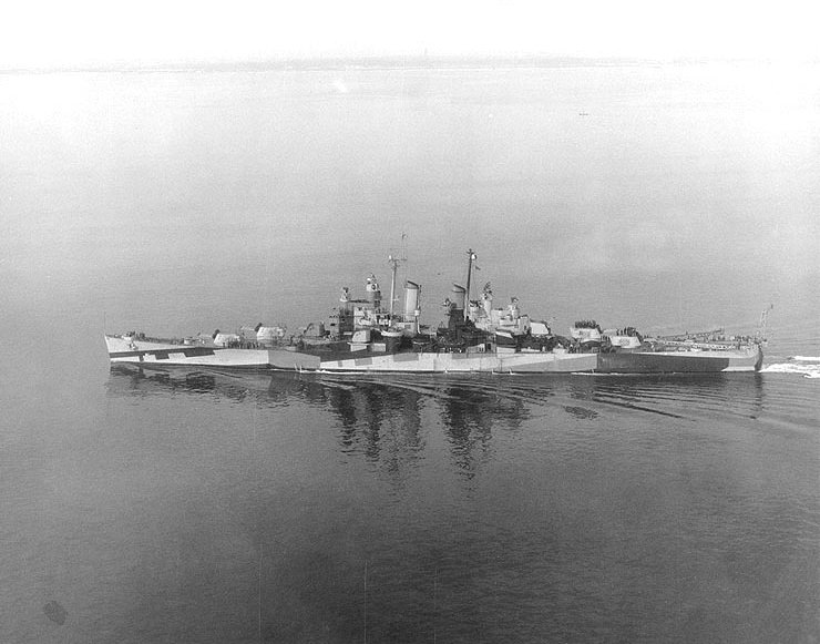 The U.S. Navy light cruiser USS Duluth (CL-87) underway off the U.S. East Coast, circa in late 1944. Her camouflage is Measure 32, Design 11a.